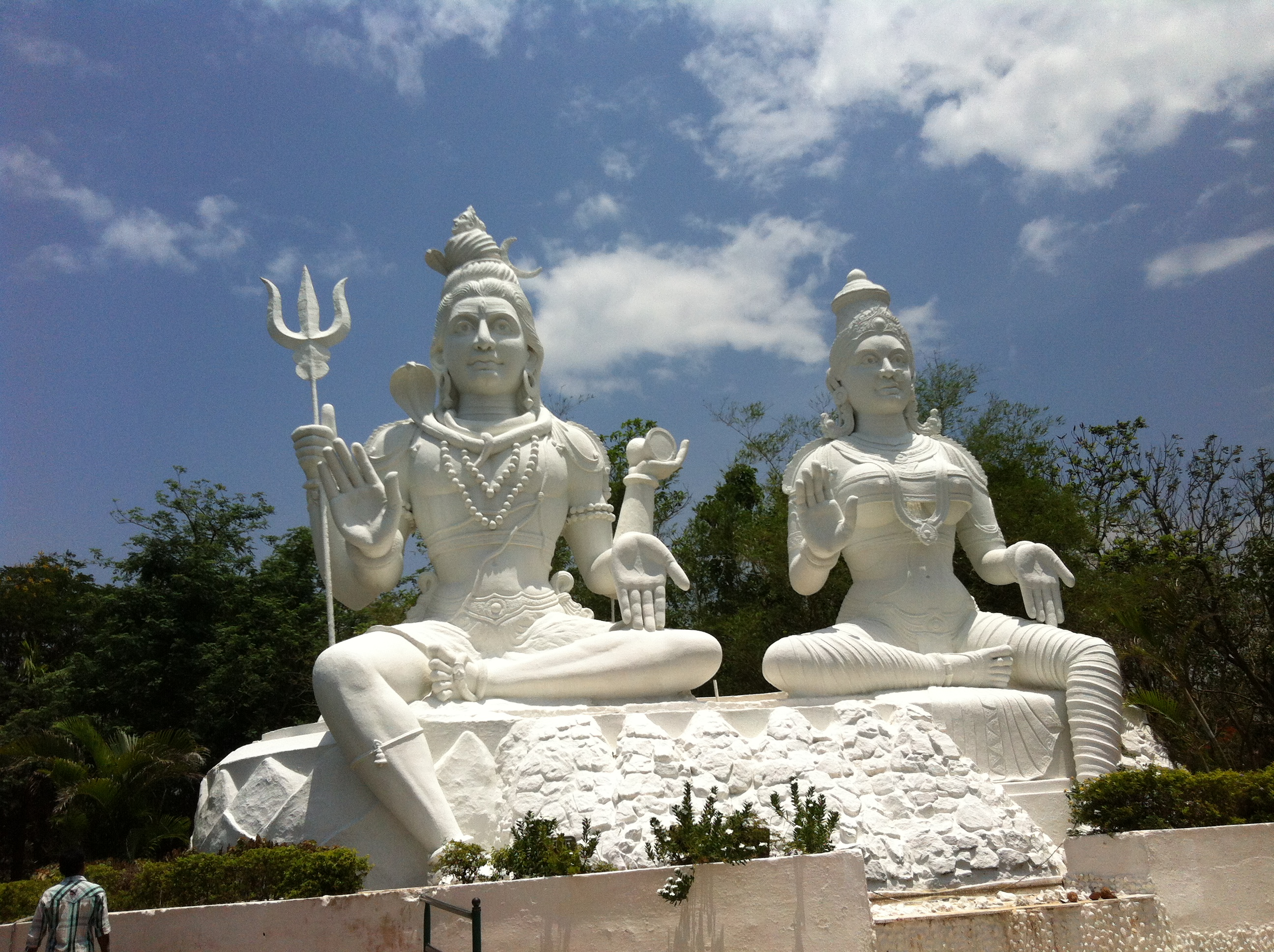 Kailasagiri